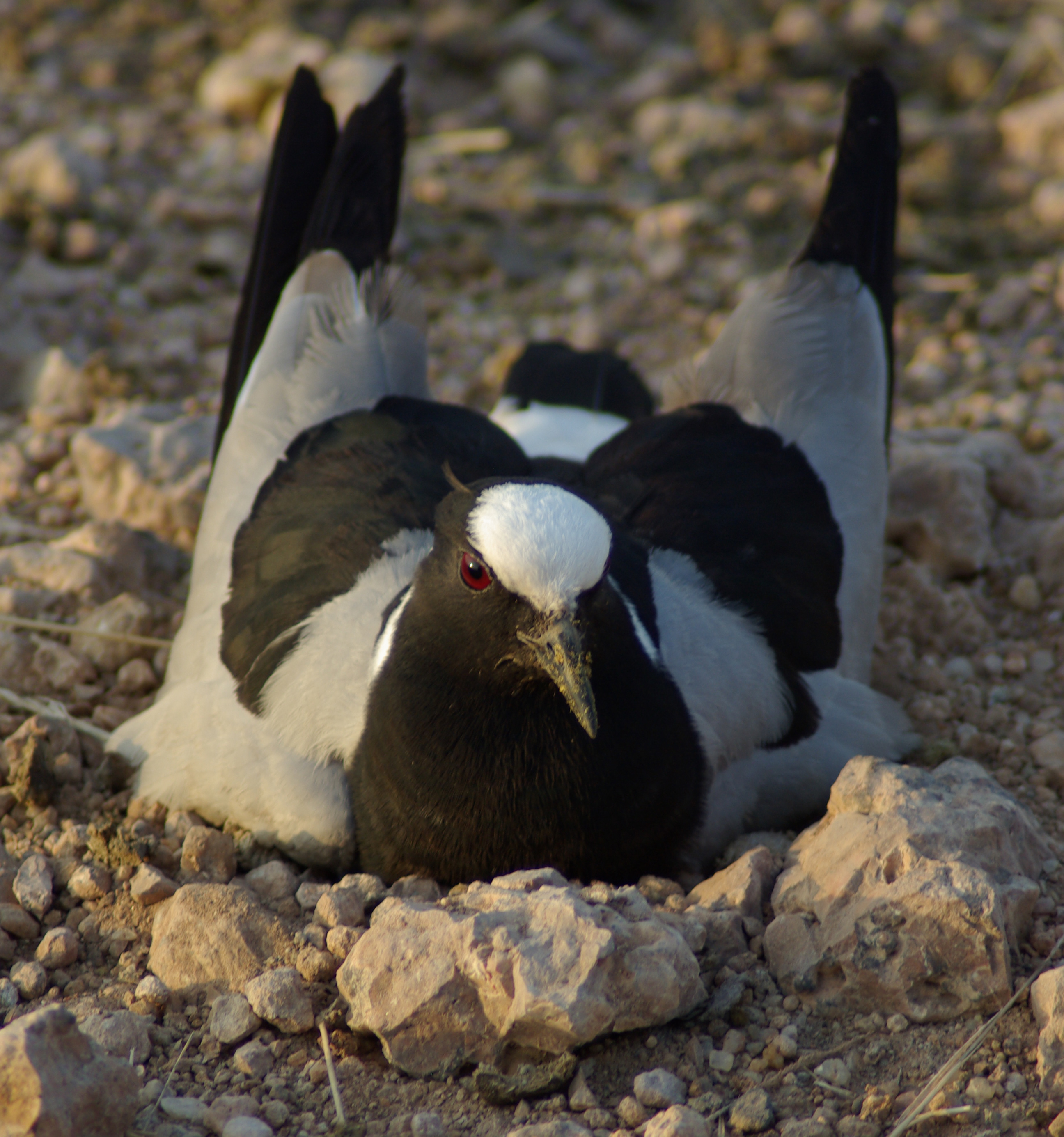 Blacksmith Lapwing, Vanellus armatus, nesting in road at Amboseli National Park, Kenya. The time stamp is 10 hours too early.